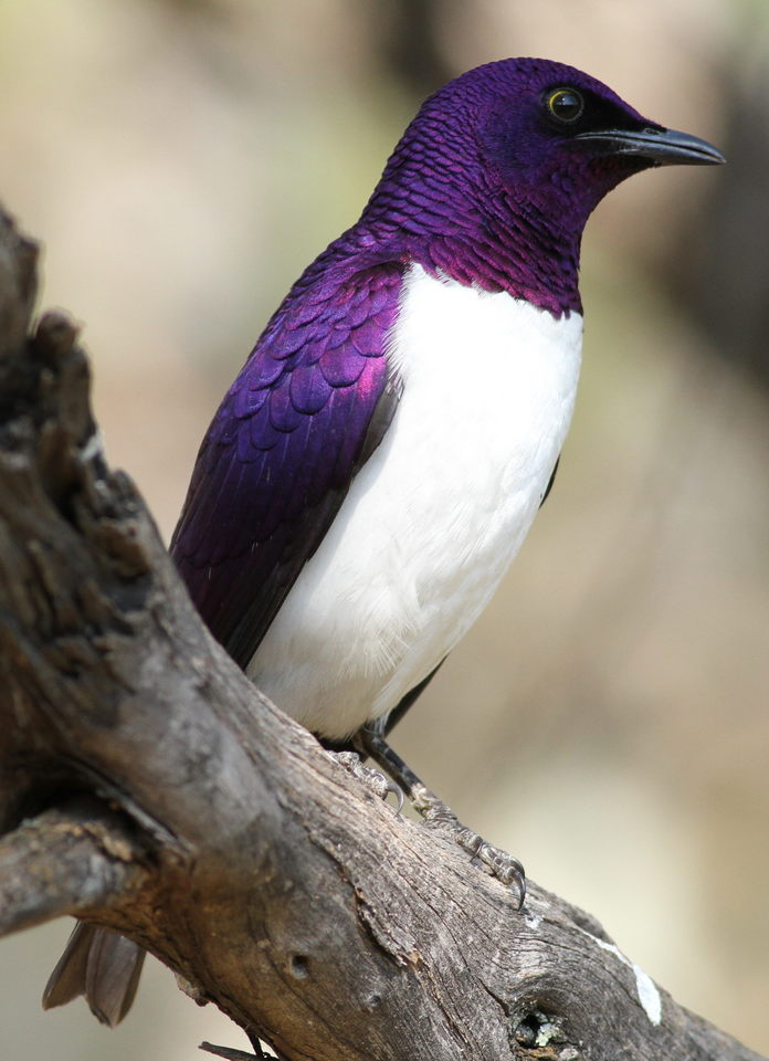 Violet-backed Starling, Cinnyricinclus leucogaster, at Pilanesberg National Park, Northwest Province, South Africa